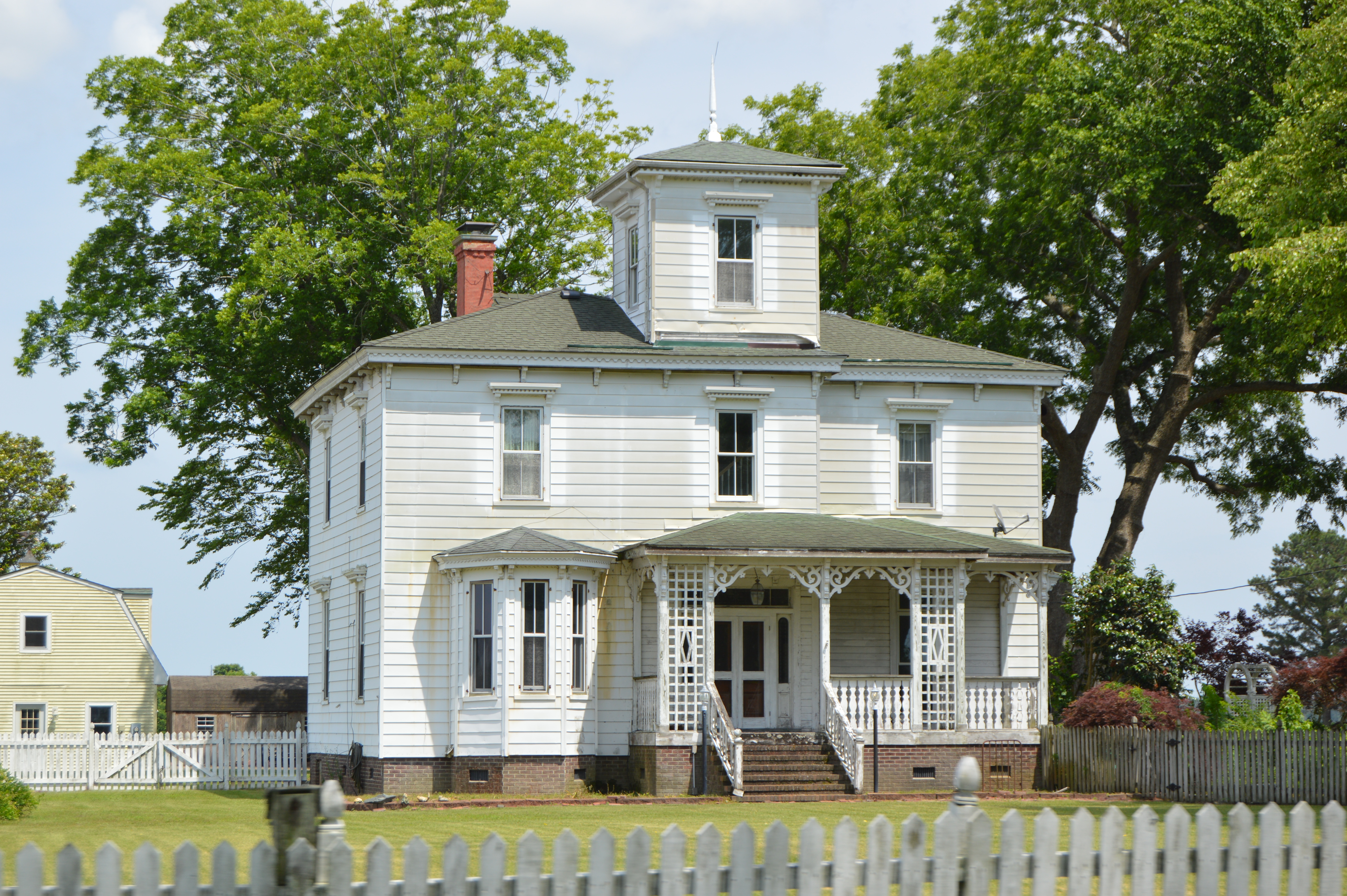 Front and northern side of the Shaw House, located along North Carolina Highway 34 at Shawboro in Currituck County, North Carolina, United States. Built in 1885, it is listed on the National Register of Historic Places.